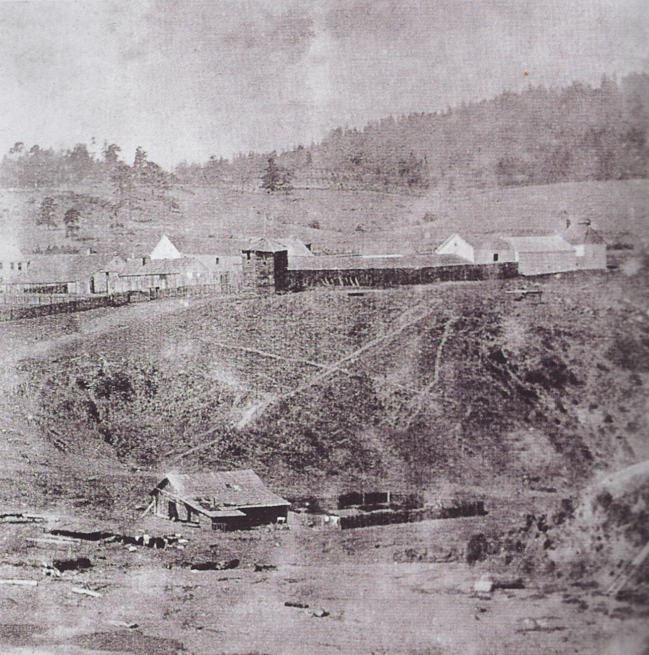 Fort Ross circa 1865, earliest photo of the cove and fort